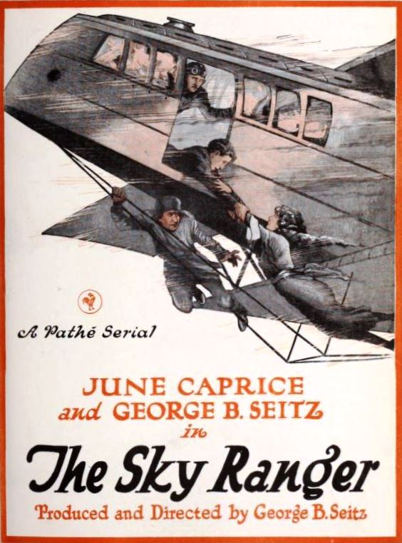 Advertisement for the American film serial The Sky Ranger (1921) with June Caprice and George B. Seitz, from the insert after page 26 of the May 7, 1921 Exhibitors Herald.